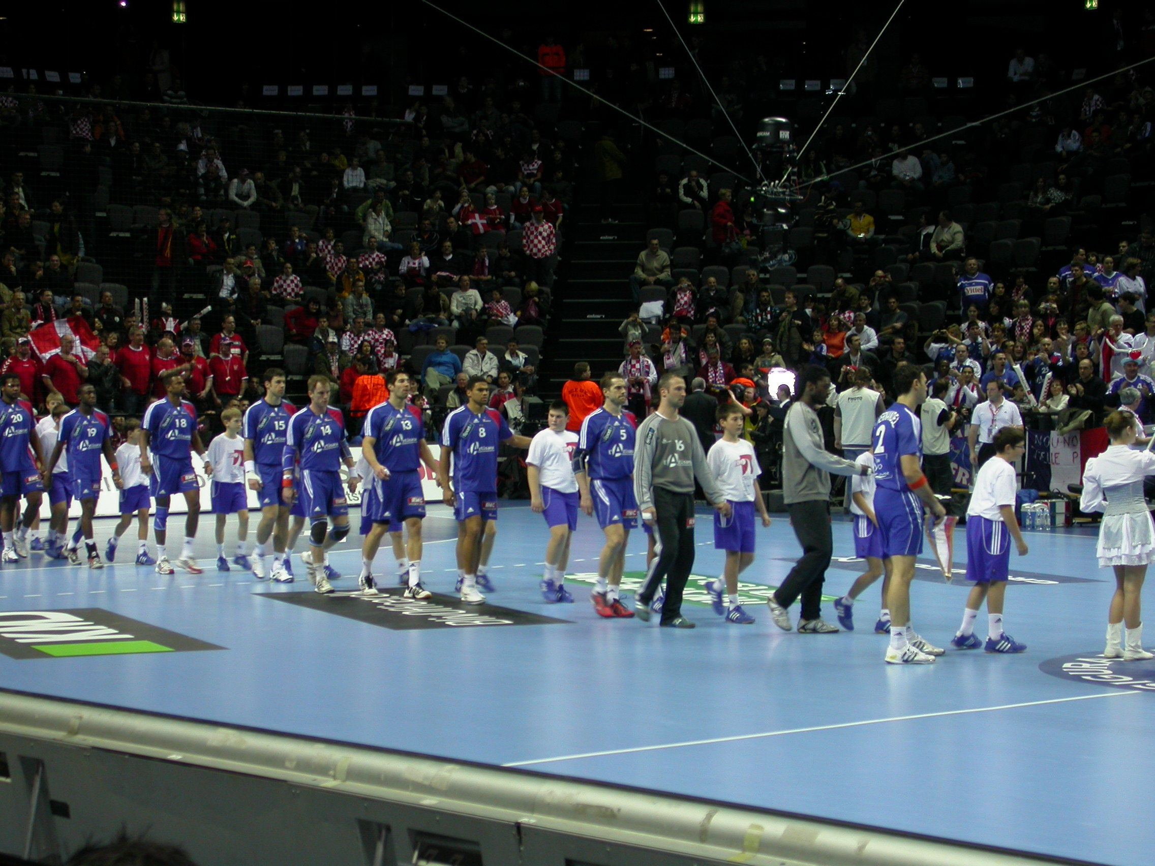 French team entering the field.